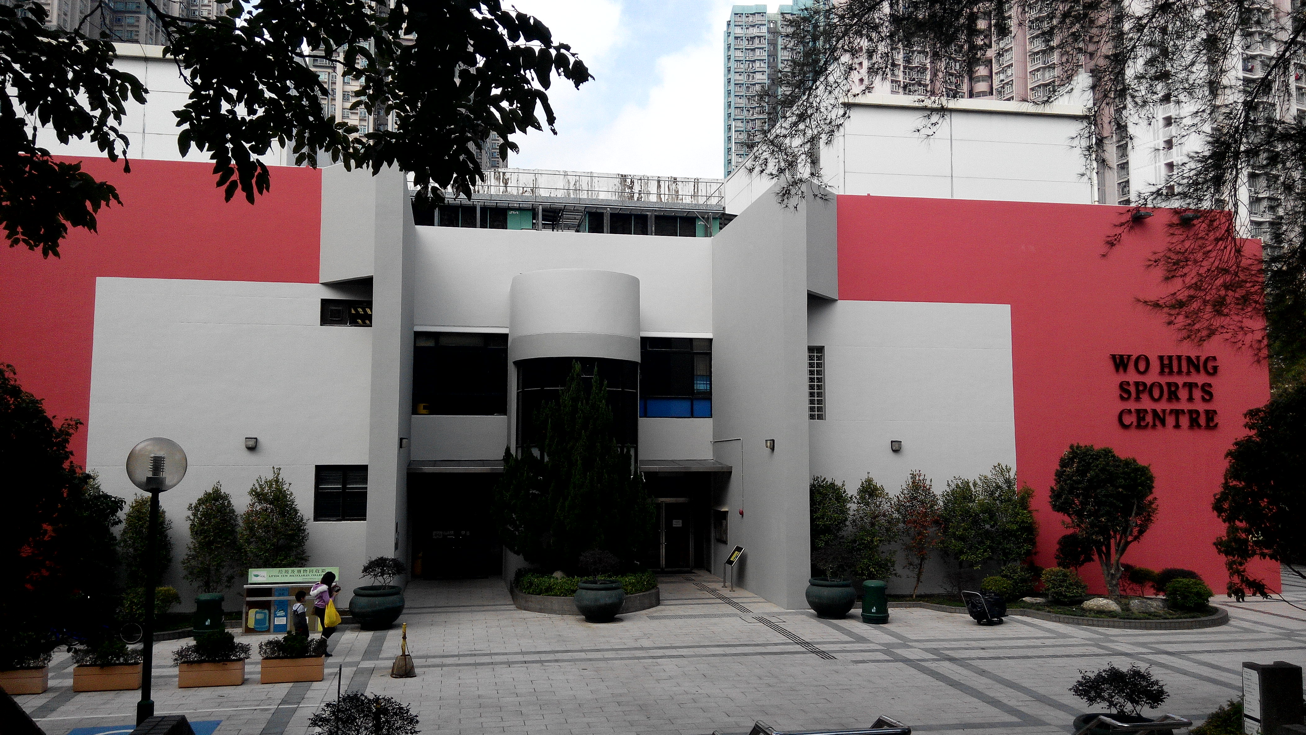 Fanling, WovHing Sports Centre